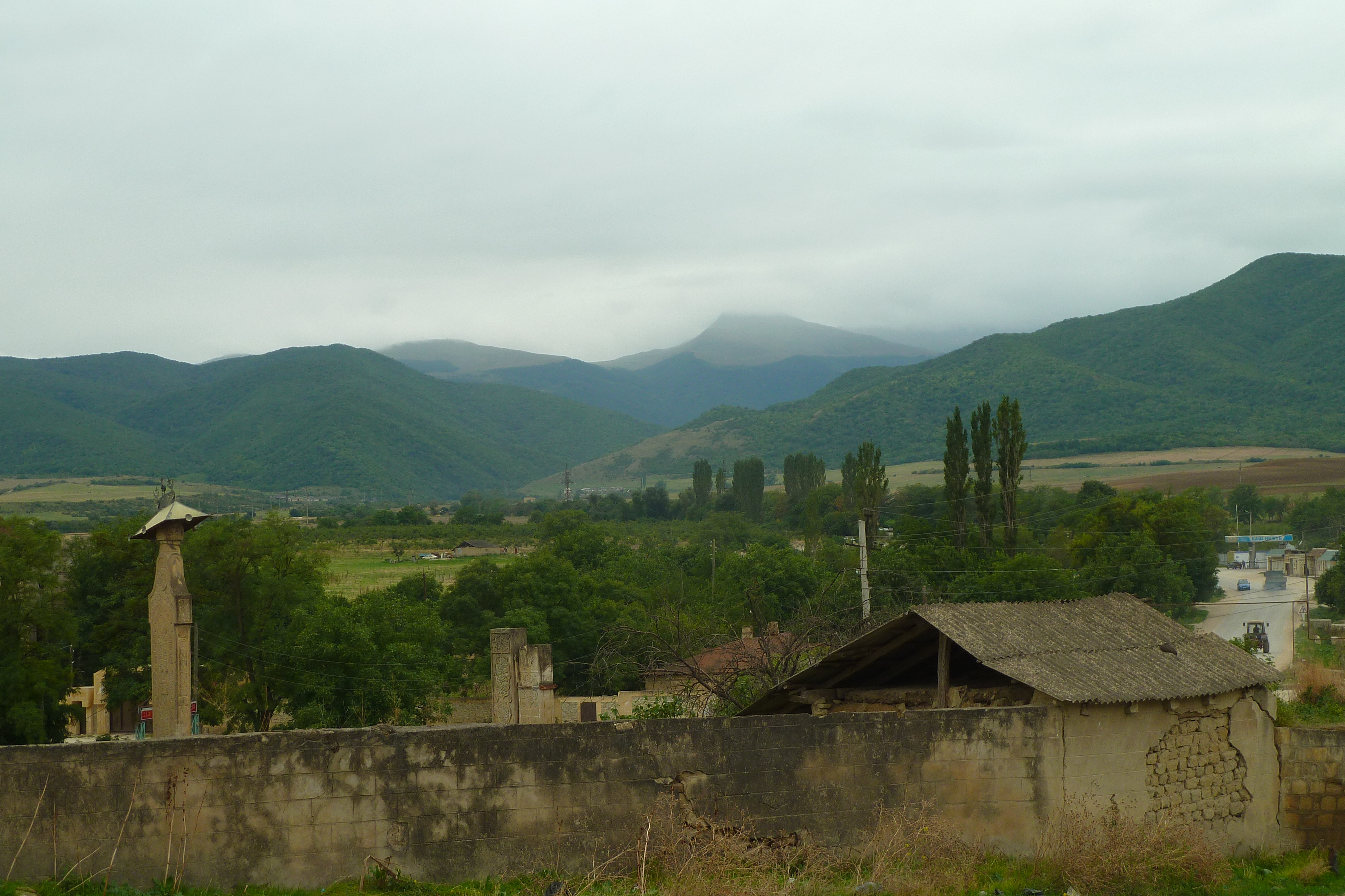 View from Sergokala